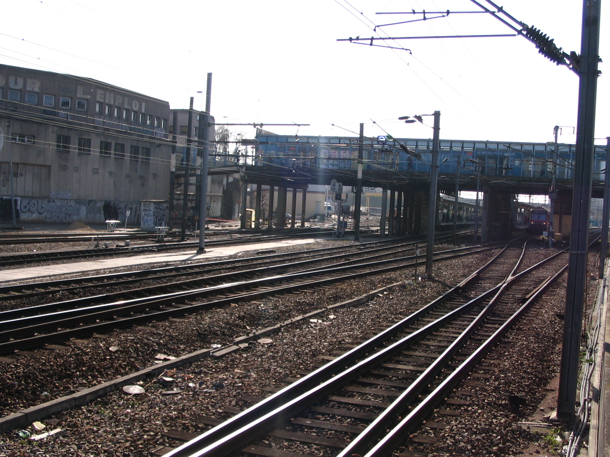 The commuter train station of Nanterre-Université, in Hauts-de-Seine, France.